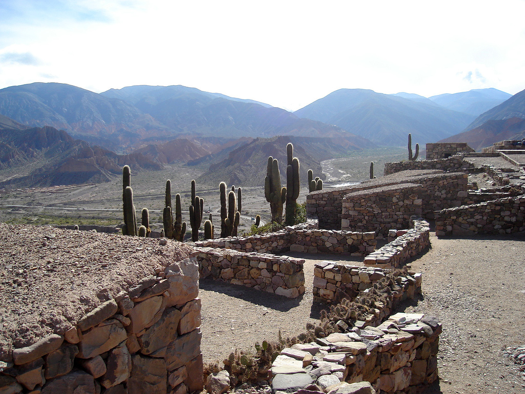 Ruins of Pucará de Tilcara, in the Jujuy province, Argentina. Located in the Quebrada de Humahuaca